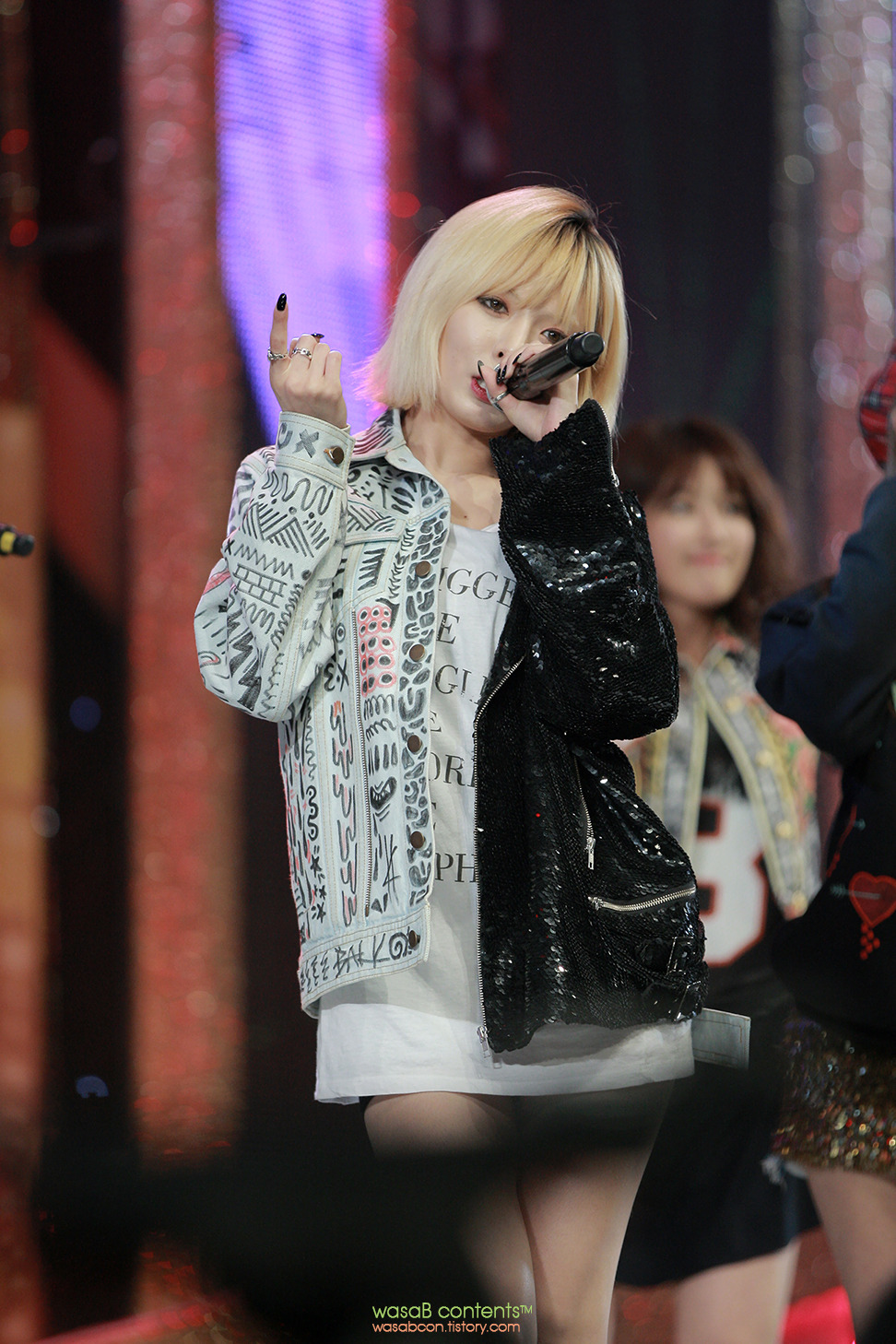 HyunA in December 2013, during the 2013 Korea Yakult Seven Pro BaseBall Golden Globe Award.